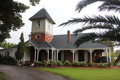 Ithaca (1896) showing the the tower.